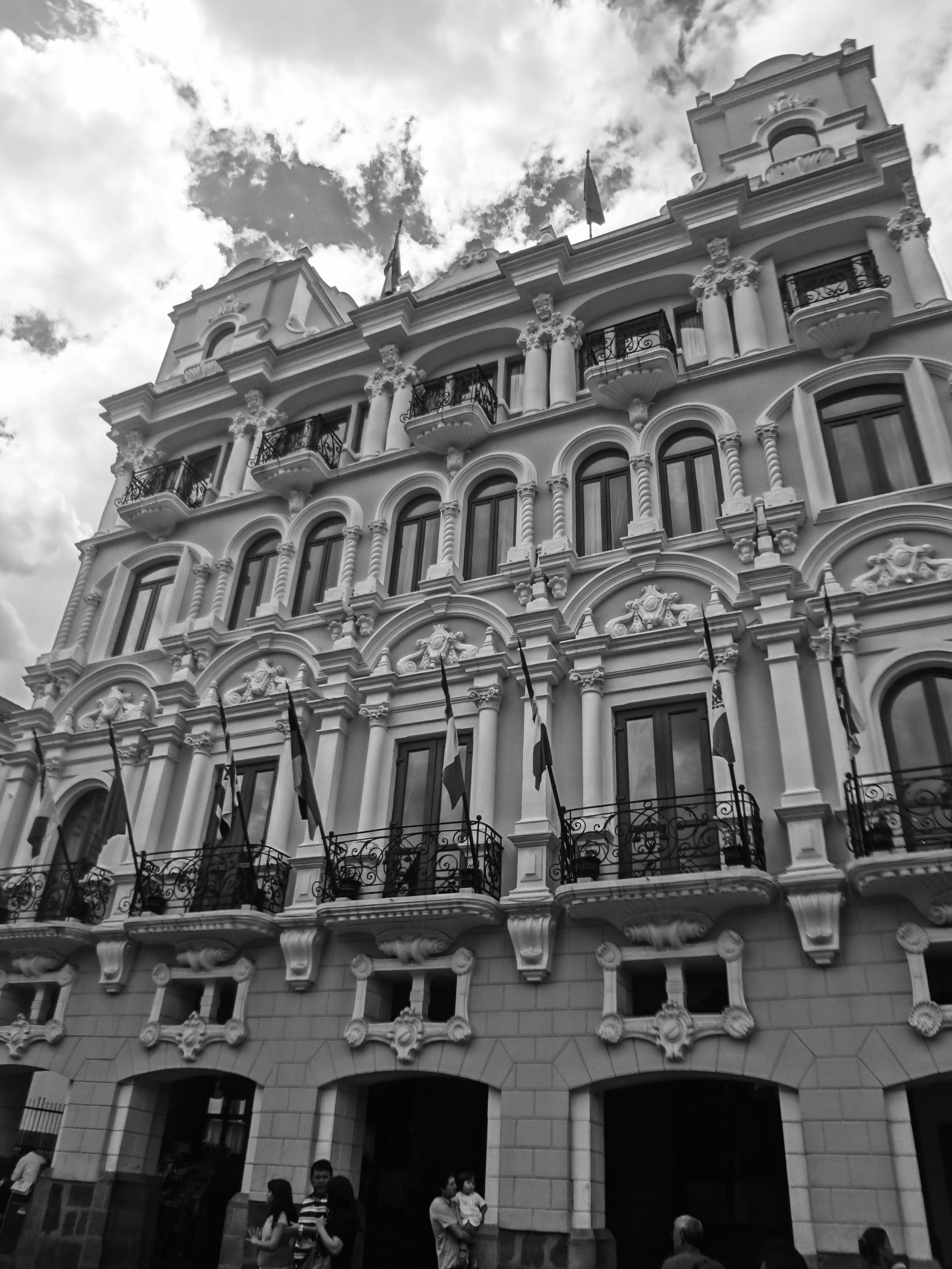 Historic Center of Quito - World Heritage Site by UNESCO A photograph of the Hotel Plaza Grande in the Historic Center of Quito